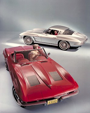 1963 Chevrolet Corvettes